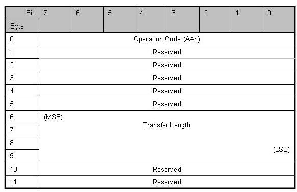 labeltag write 12 command